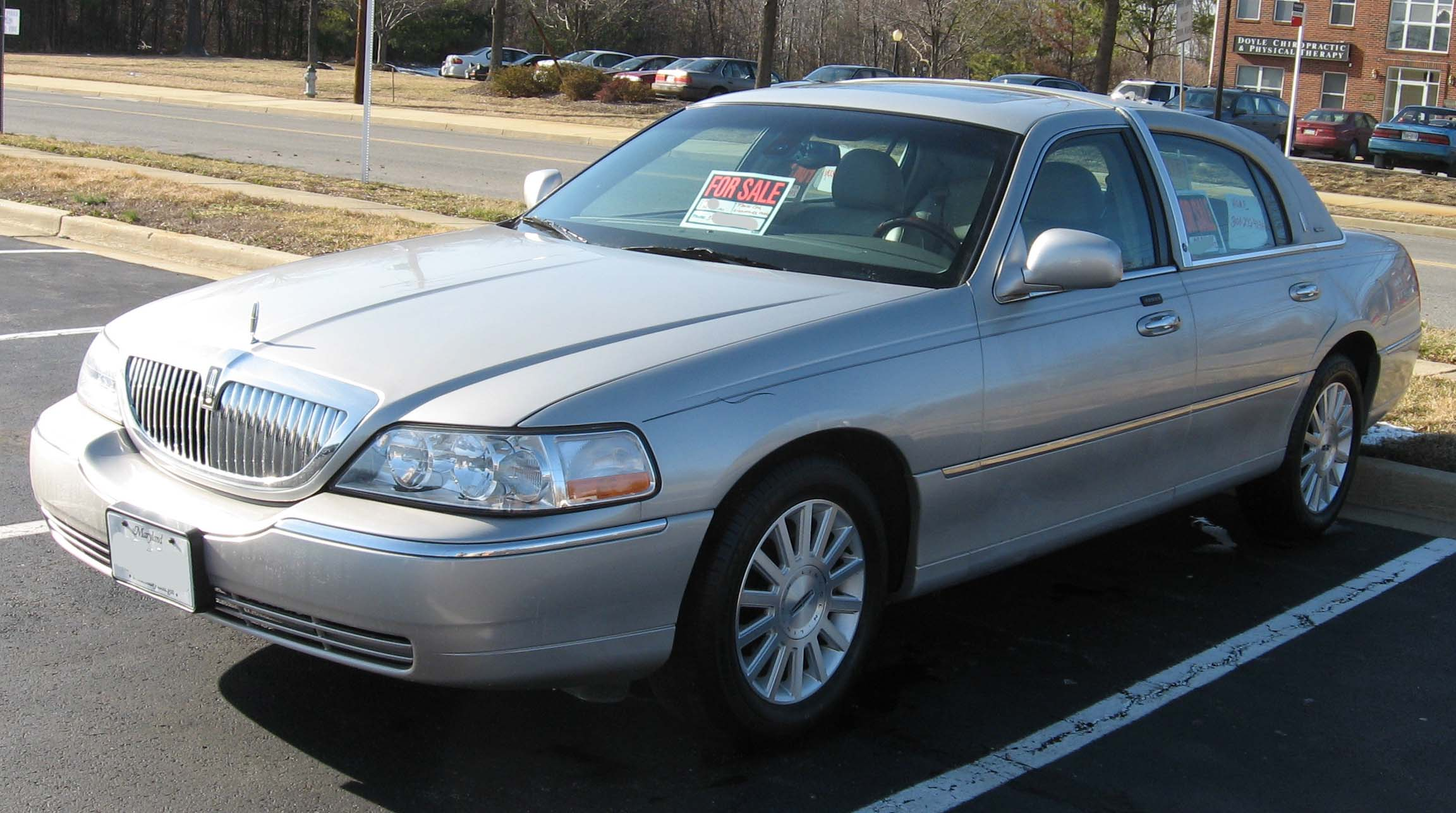 2003 Lincoln Town Car Signature photographed in USA.